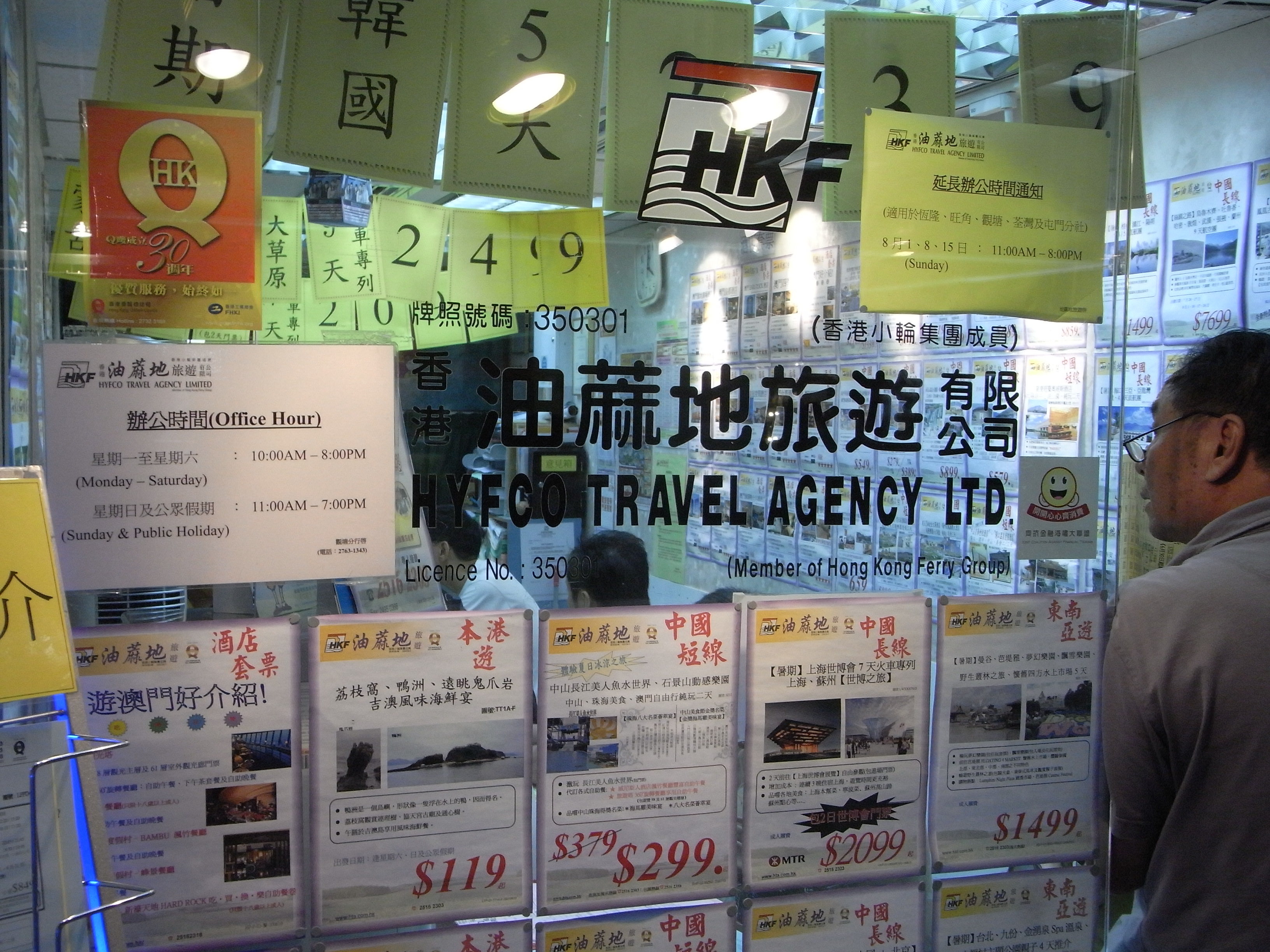 觀塘廣場